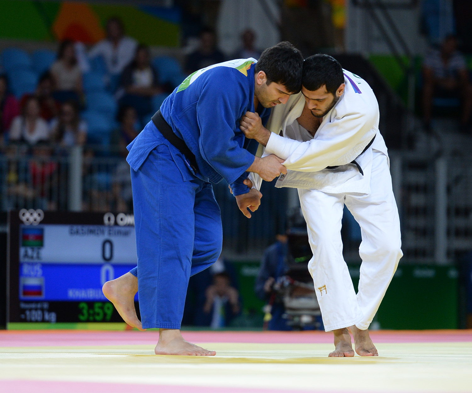 Judo at the 2016 Summer Olympics, Gasimov vs Khaibulaev